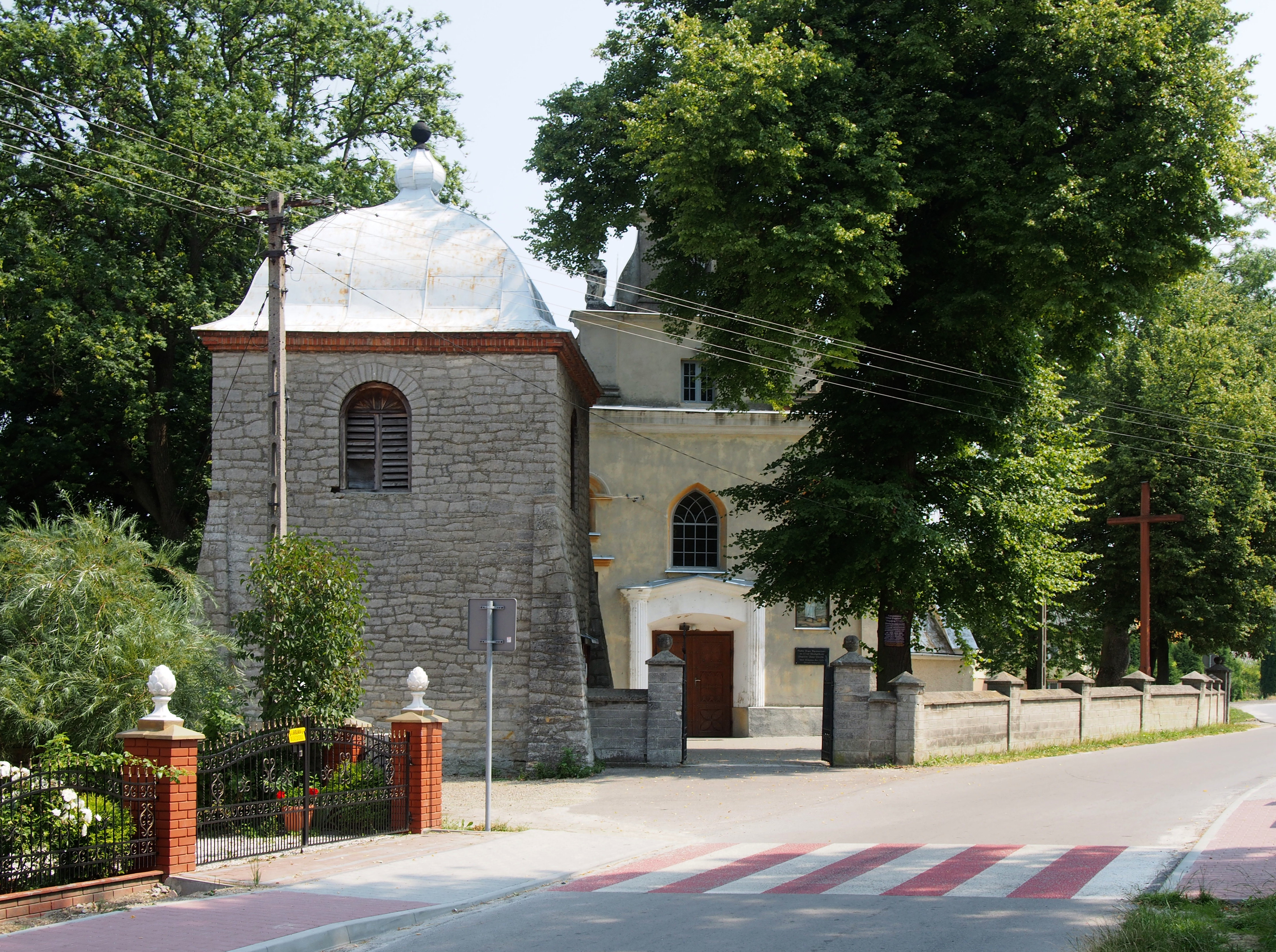 Saint George church in Szczeglice, powiat staszowski, Świętokrzyskie Voivodeship, Poland.